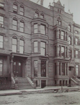 Samuel J. Tilden Residence, New York